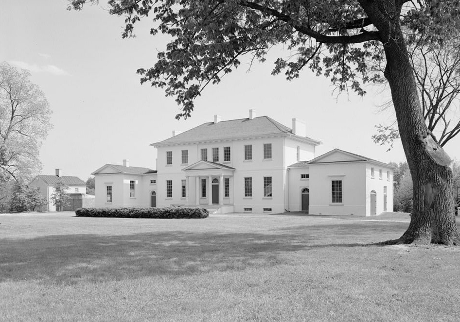 General view of the south elevation of the Riversdale Mansion, Riverdale, Maryland, USA